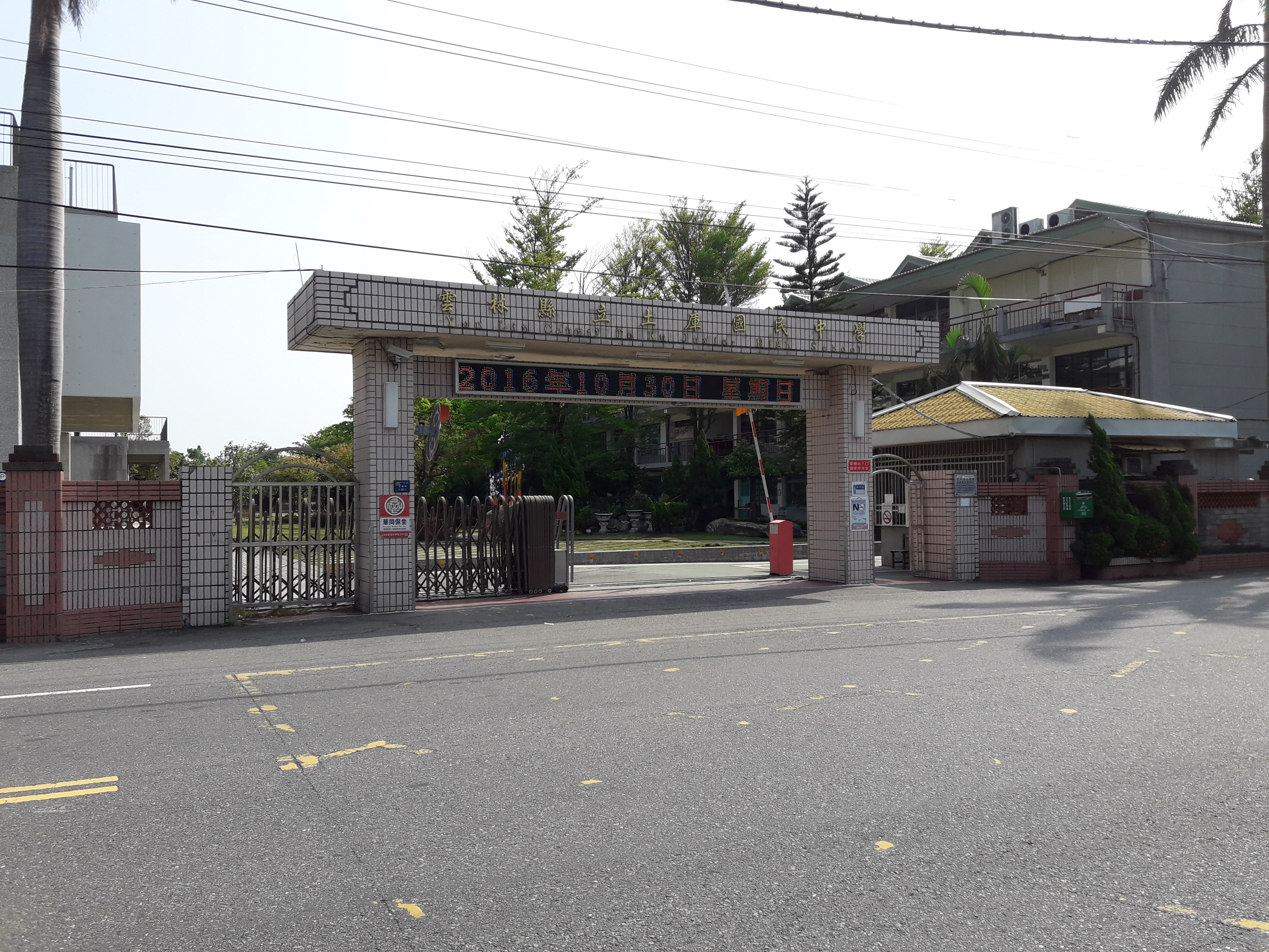 Gate of Tuku Junior high school in Yunlin in Taiwan, which is on the Fuxing Road.